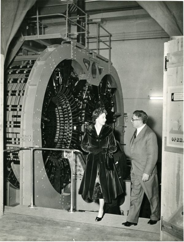 Queen Elizabeth II, guided by AERE Harwell's Chief Physicist Donald Fry, visits the ZETA fusion reactor while it is under construction. The main induction magnet dominates the left side of the image, the toroidal vacuum chamber has not yet been installed.